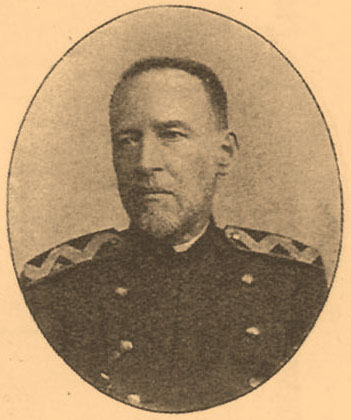 Shubinsky, Sergey Nikolayevich, Illustration from Brockhaus and Efron Encyclopedic Dictionary (1890—1907).